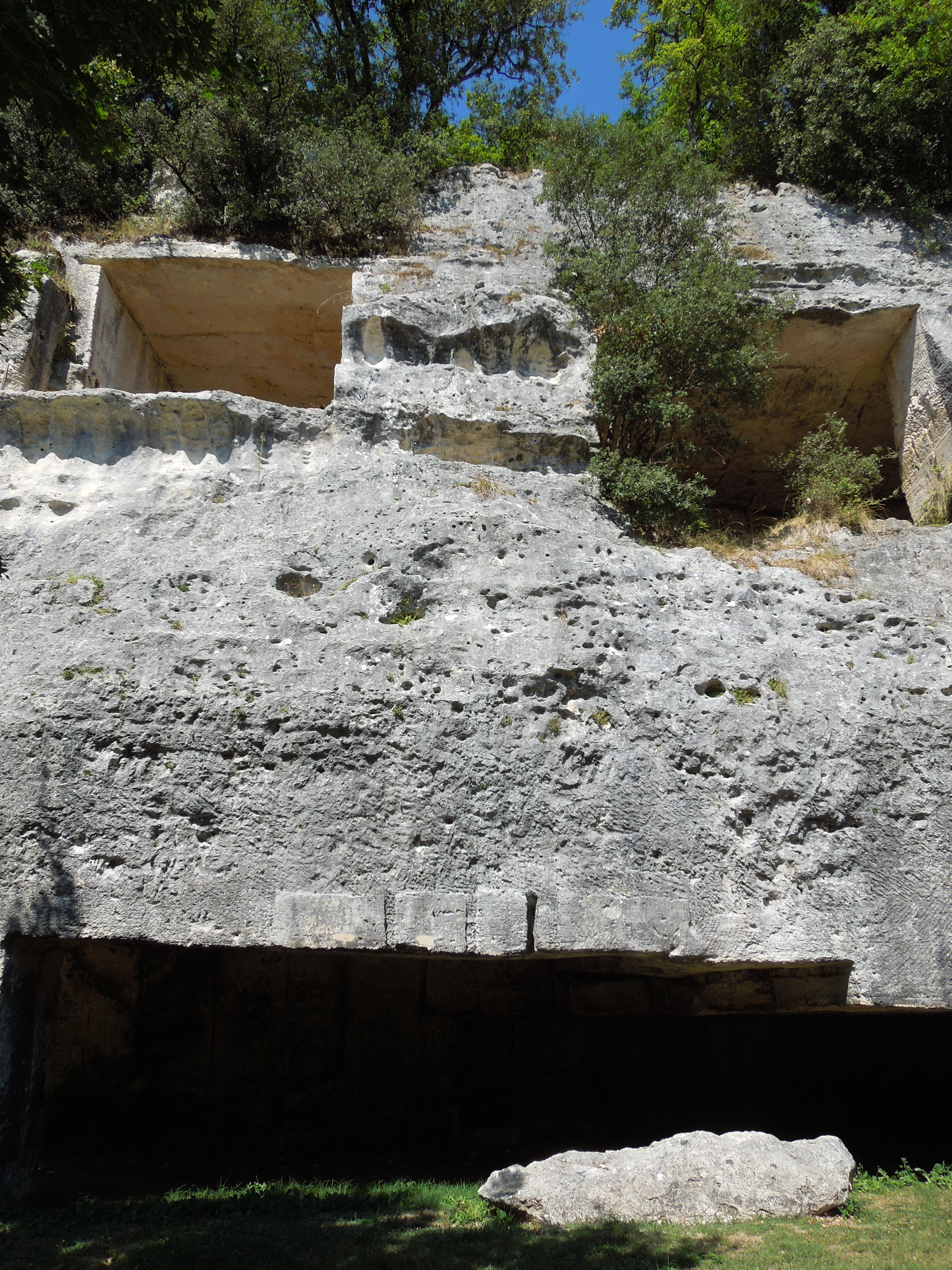 The Cliffs of Cordis near Marignac, an ancient quarry maintained and sanctioned by the FFME as a rock climbing site